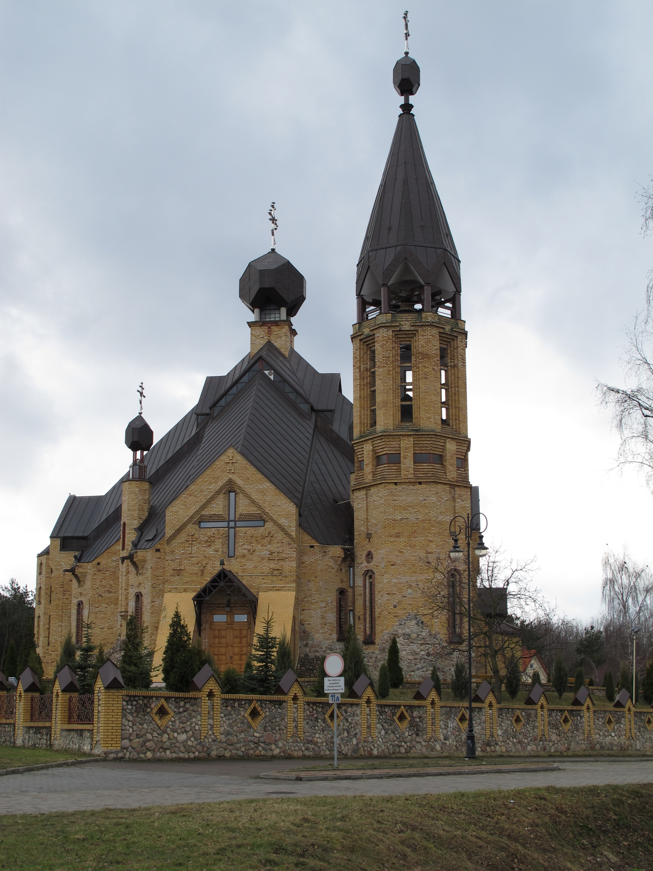 Cerkiew of Lord's Resurrection by Sikorskiego street in Białystok, podlaskie, Poland.